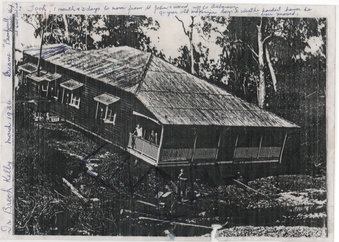 This house was moved from St Johns Wood, Ashgrove, across the banks of Enogerra Creek and up to Waterworks Rd, where it became a hospital.